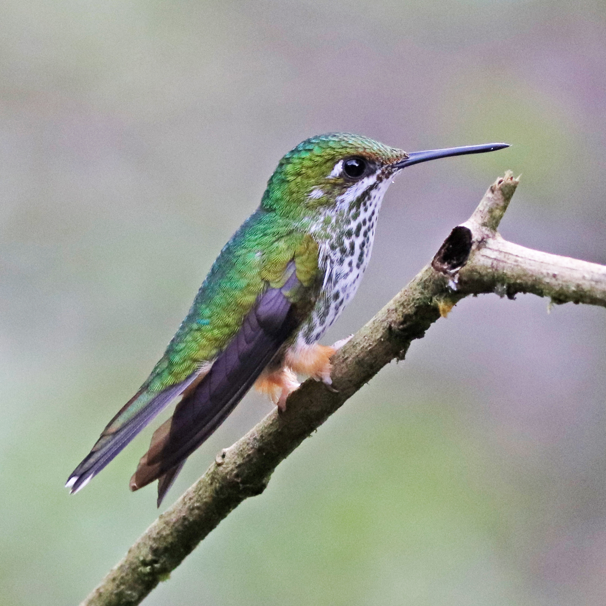 female Peruvian Racket-tail perched on a branch